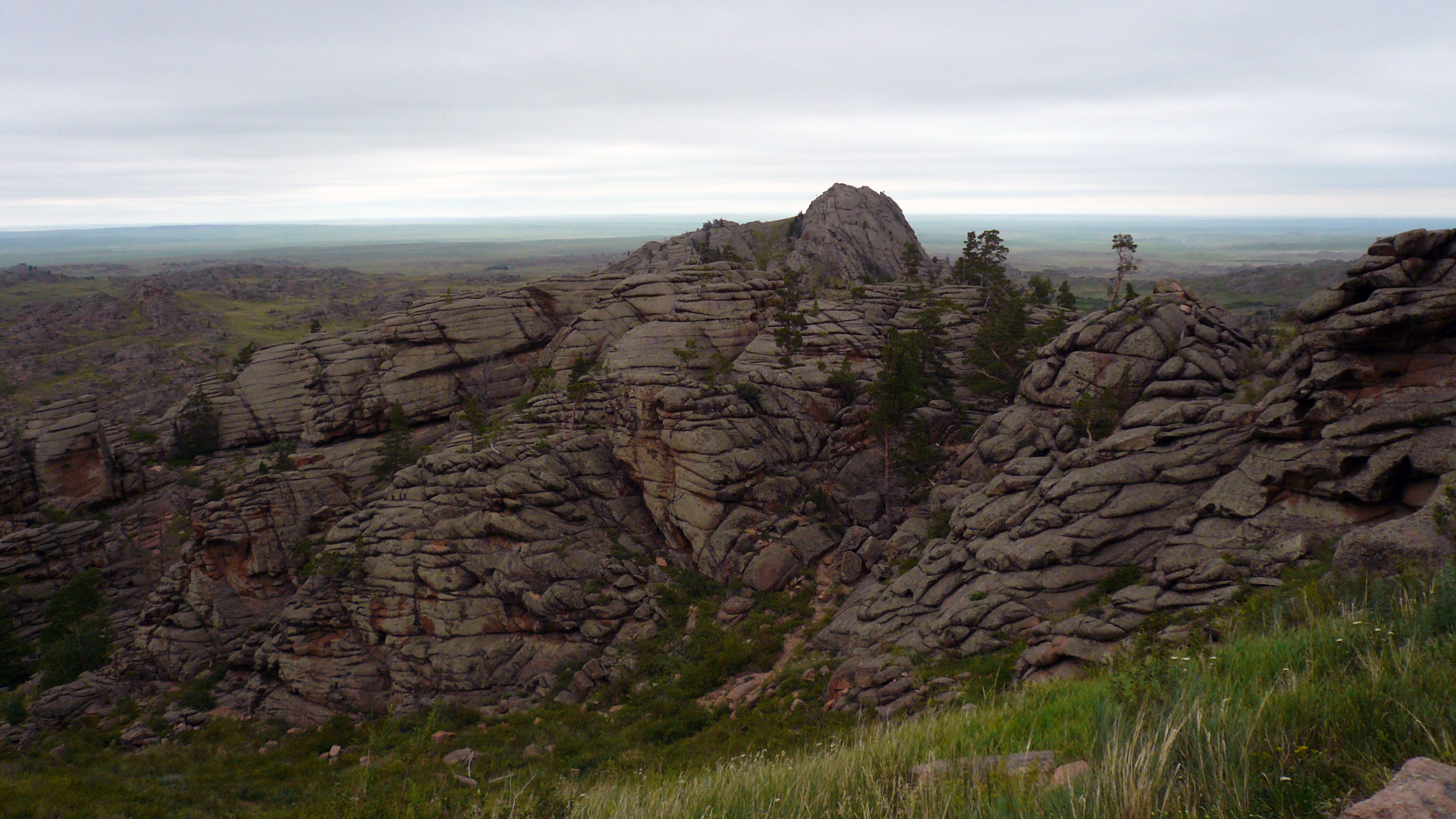 Landscape of Bayanaul. Picture taken on mid-way to Sacred Cave